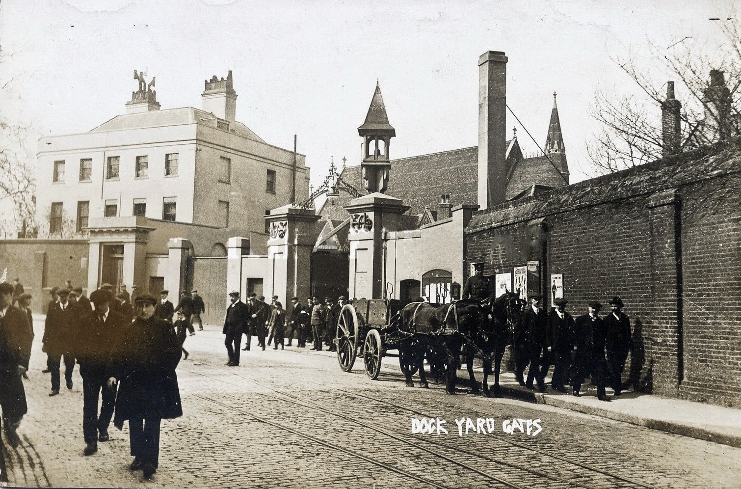 View from Woolwich Church Street of the gates of Woolwich Dockyard. Postcard published around 1900(?)